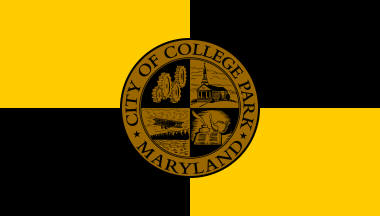 The official city flag of College Park, Maryland. The flag consists of the city seal centered on a black and gold background. The seal was designed by Mel Havenner and adopted by the City of College Park on April 10, 1962. The seal is a circle divided into quarters. Each section represents an important aspect of the City of College Park. The chapel represents religion. The books represent education (College Park is the home to the flagship campus of the University of Maryland). The airplane and landing field represent the historic College Park airport. The wheels represent industry.